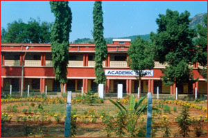 This is the picture of Nayagarh Autonomous College.